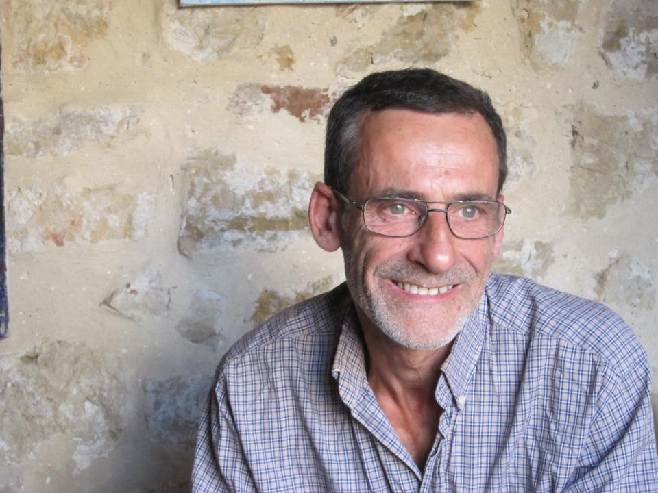 A Spanish painter Antonio García Calvente Totom (1957—2015)